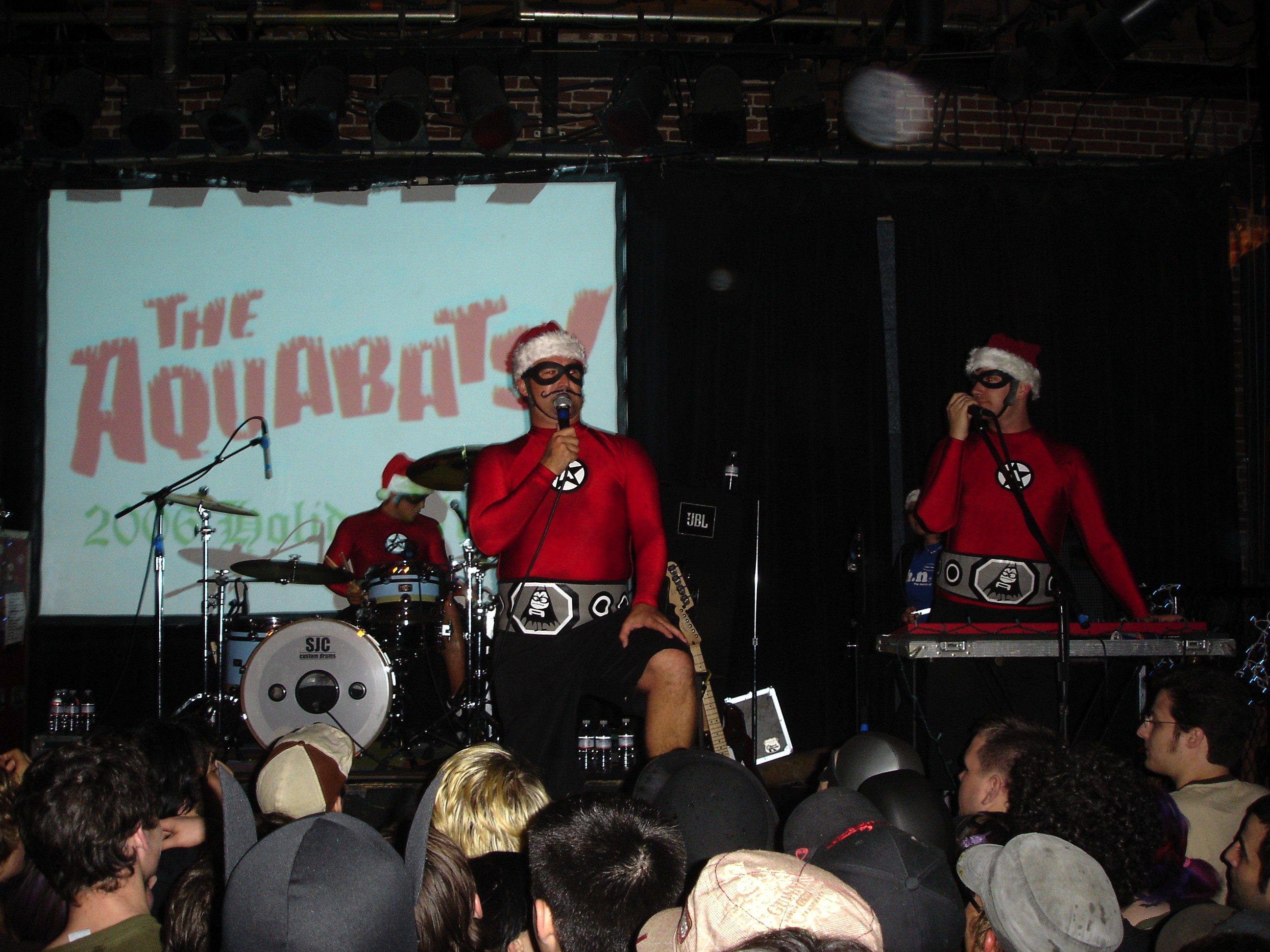 Photo of the American band The Aquabats performing a holiday-themed show at Slim's in San Francisco, California on December 7, 2006.